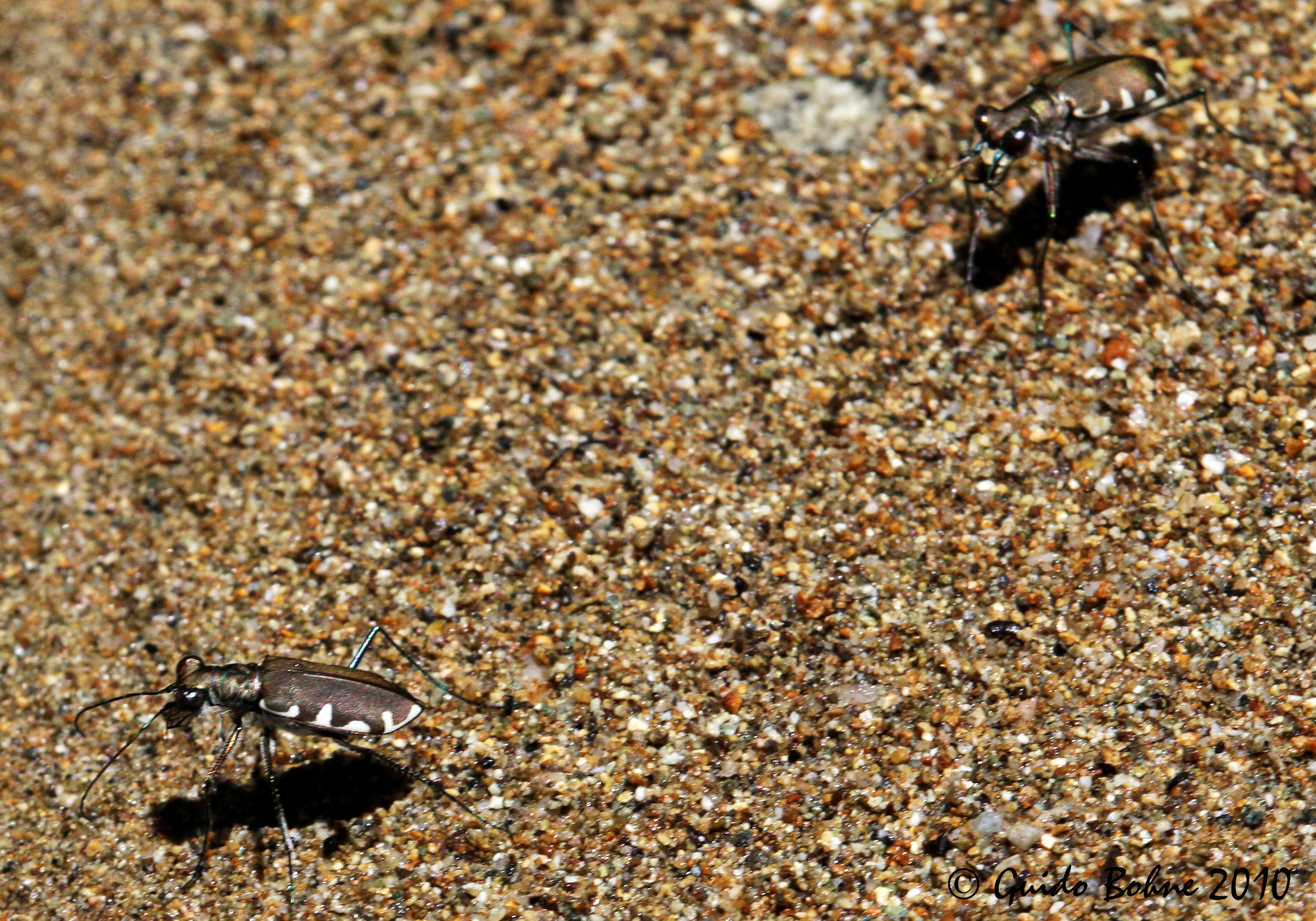 Calomera opigrapha at Bogani Nani Wartabone National Park, North Sulawesi